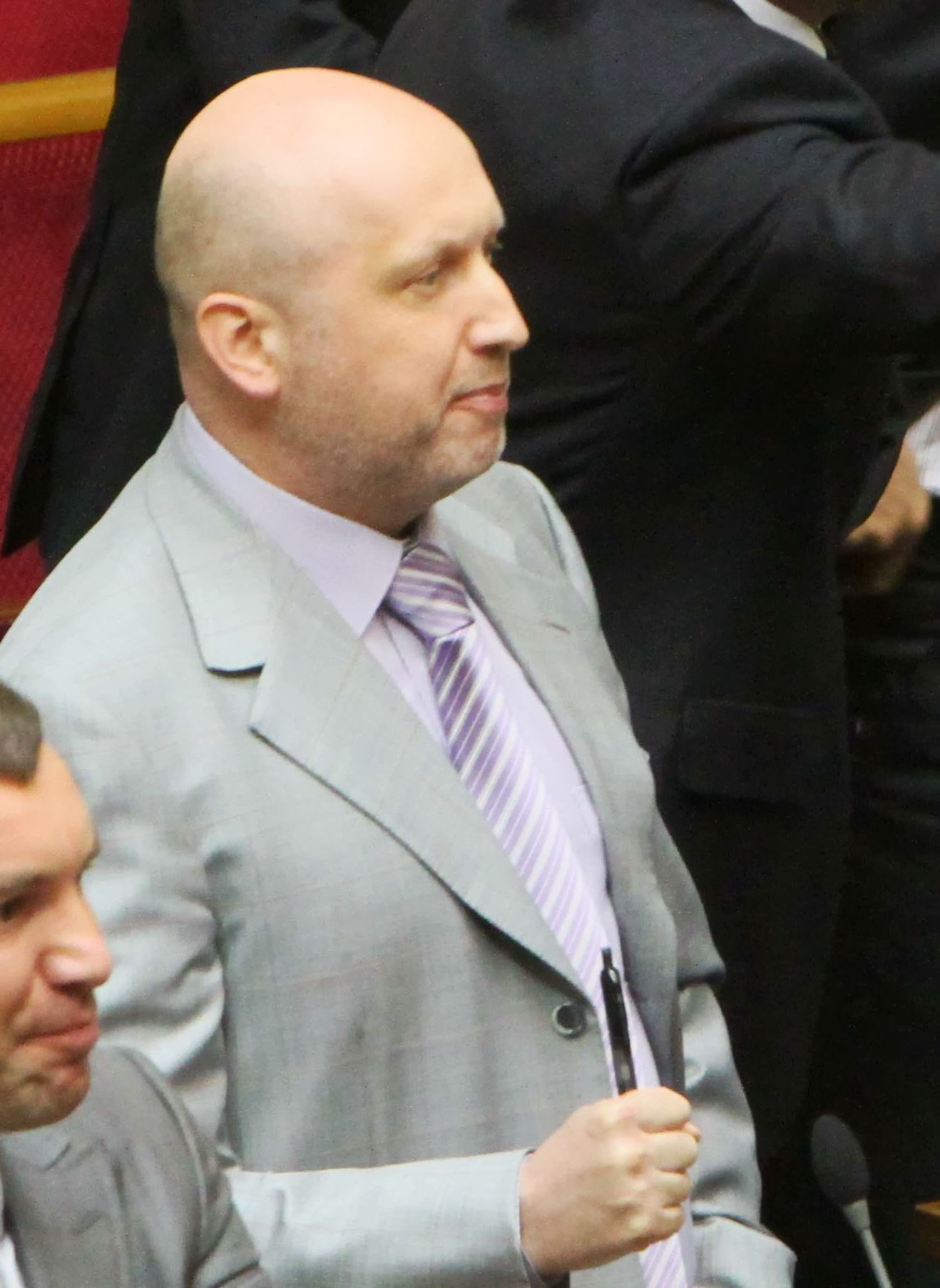 Oleksandr Turchynov, Ukrainian politician, former Acting Prime Minister of Ukraine